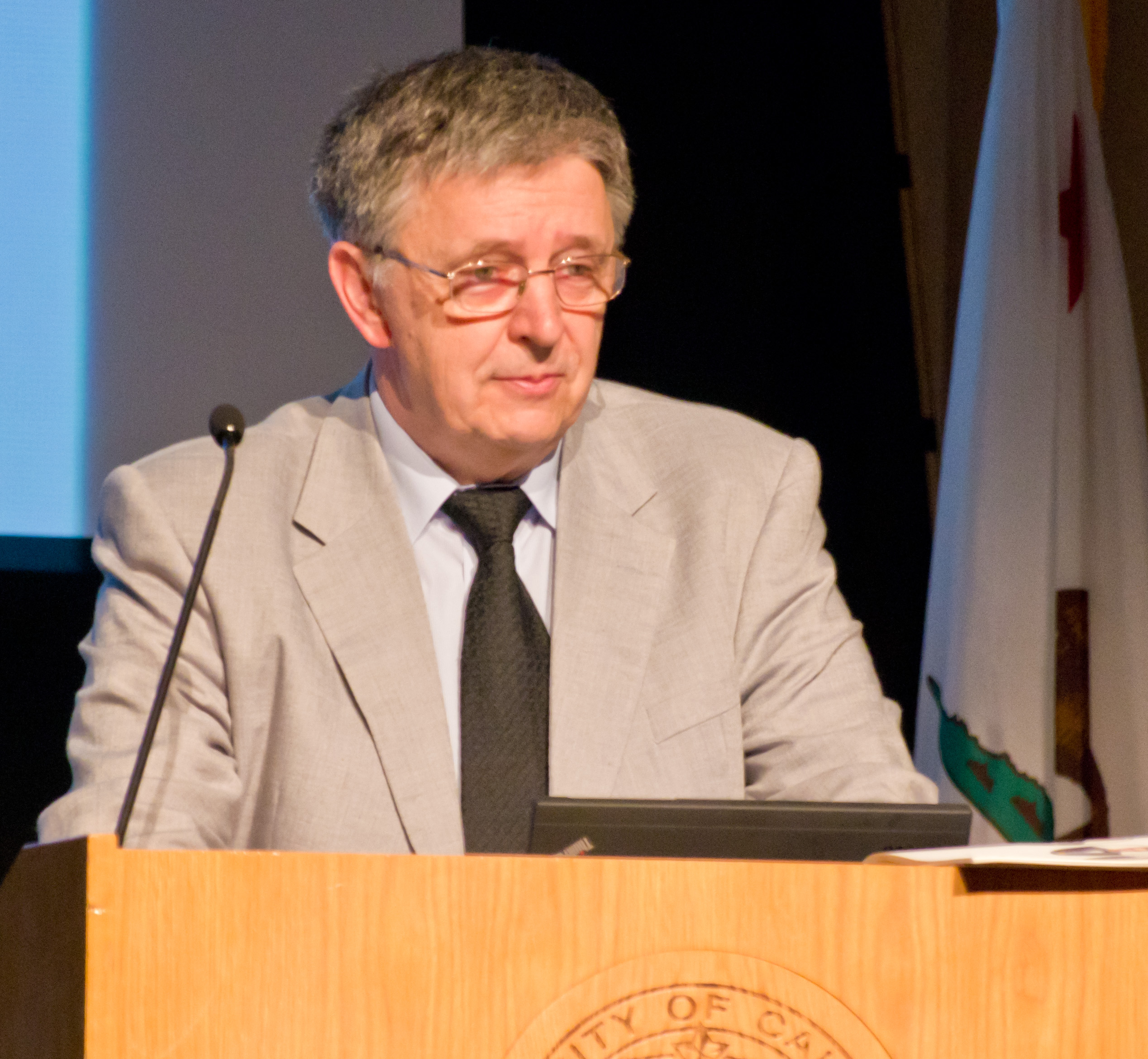 László Lovász